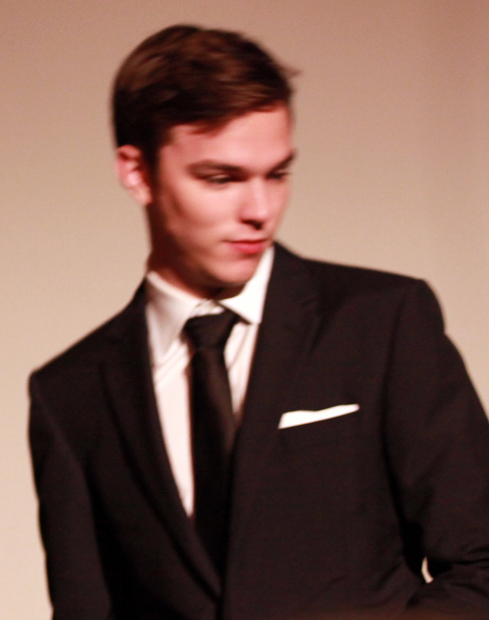 English Actor Nicholas Hault in November 2010.